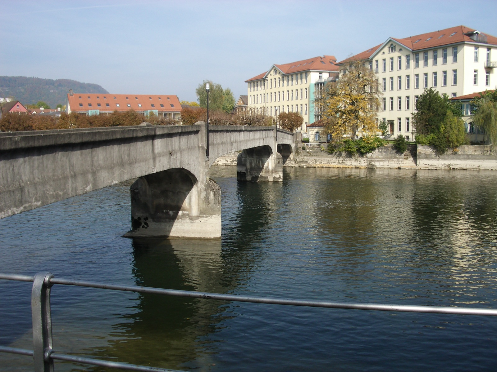 Windisch AG, Switzerland